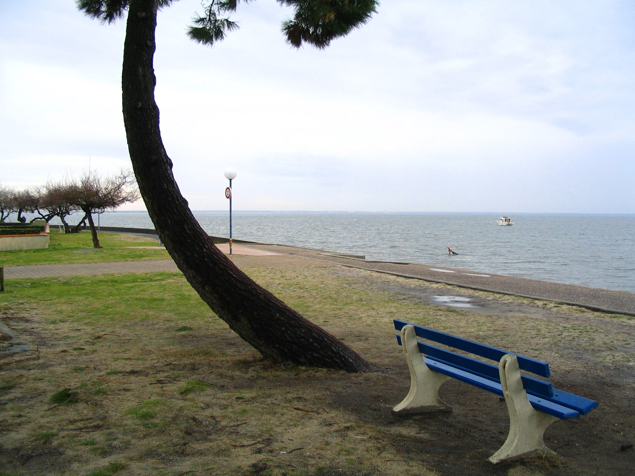 Bassin d'Arcachon - Andernos-les-bains France Author: P.Charpiat 2007